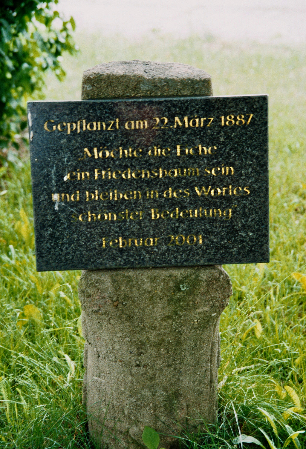 Plaque of the Kaiser-Wilhelm-Eiche (Emperor Wilhelm Oak) – a Quercus robur – in Lamsfeld, Schwielochsee, Landkreis Dahme-Spreewald, Brandenburg, Germany. The oak was plantet March 22 1887 in celebrating the 90th birthday of Wilhelm I of Germany – a fact, that is not stated on the plaque.